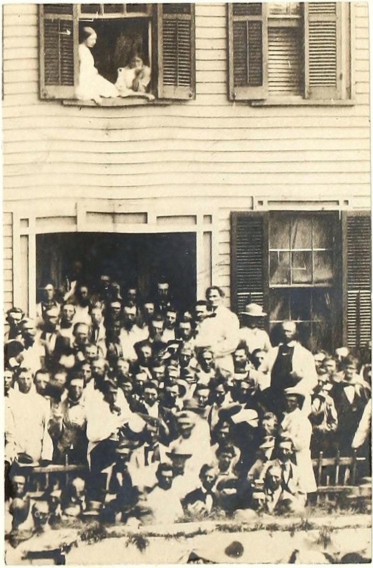 A photograph of a procession in Springfield, Illinois, at the Lincoln home.